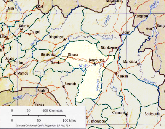 Shaded relief map of Guinea, cropped and highlighted to show Kaouroussa Prefecture and surrounding area.